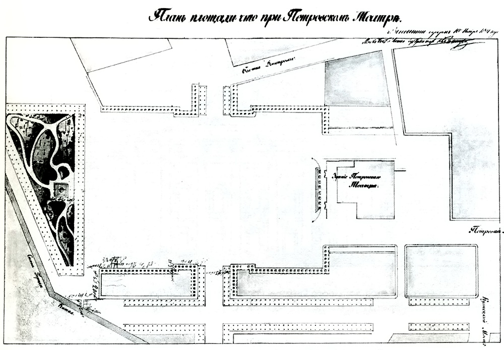 Joseph Bove's master plan for the Theatre Square in Moscow (1821).